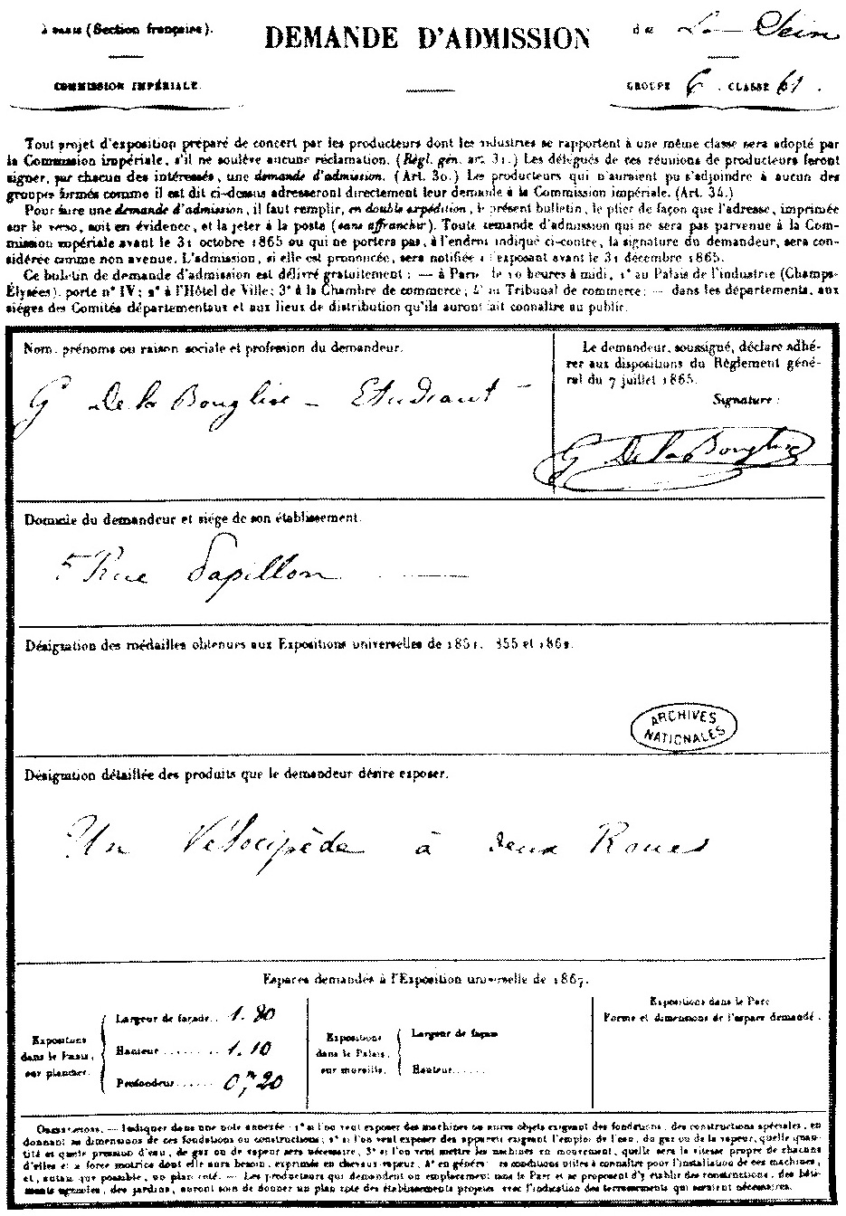 Application form for Paris World Fair 1867